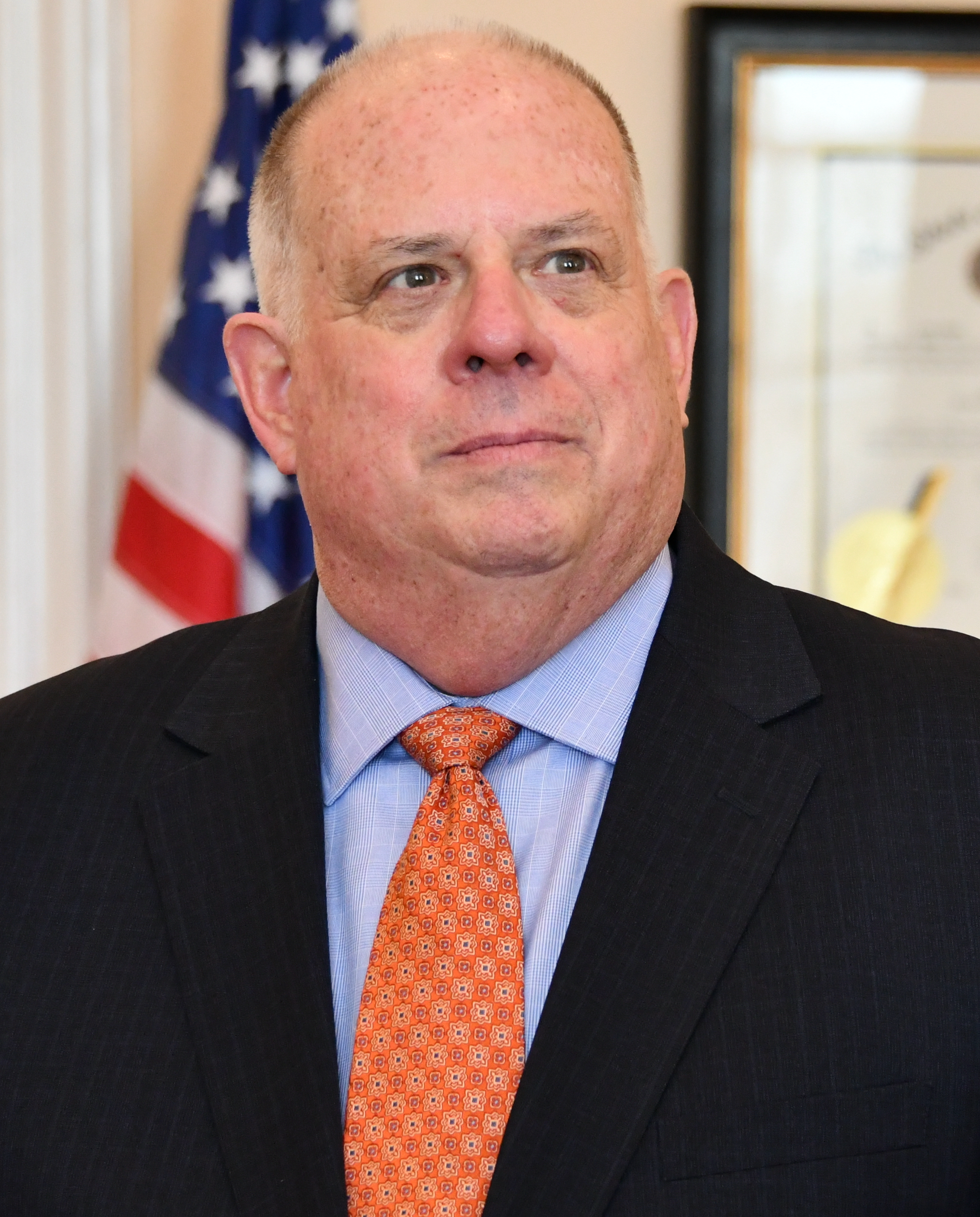 Governor Hogan Receives Appointments in the Green Bag by Joe Andrucyk at Governor's Office. Maryland State House, Annapolis MD 21401.